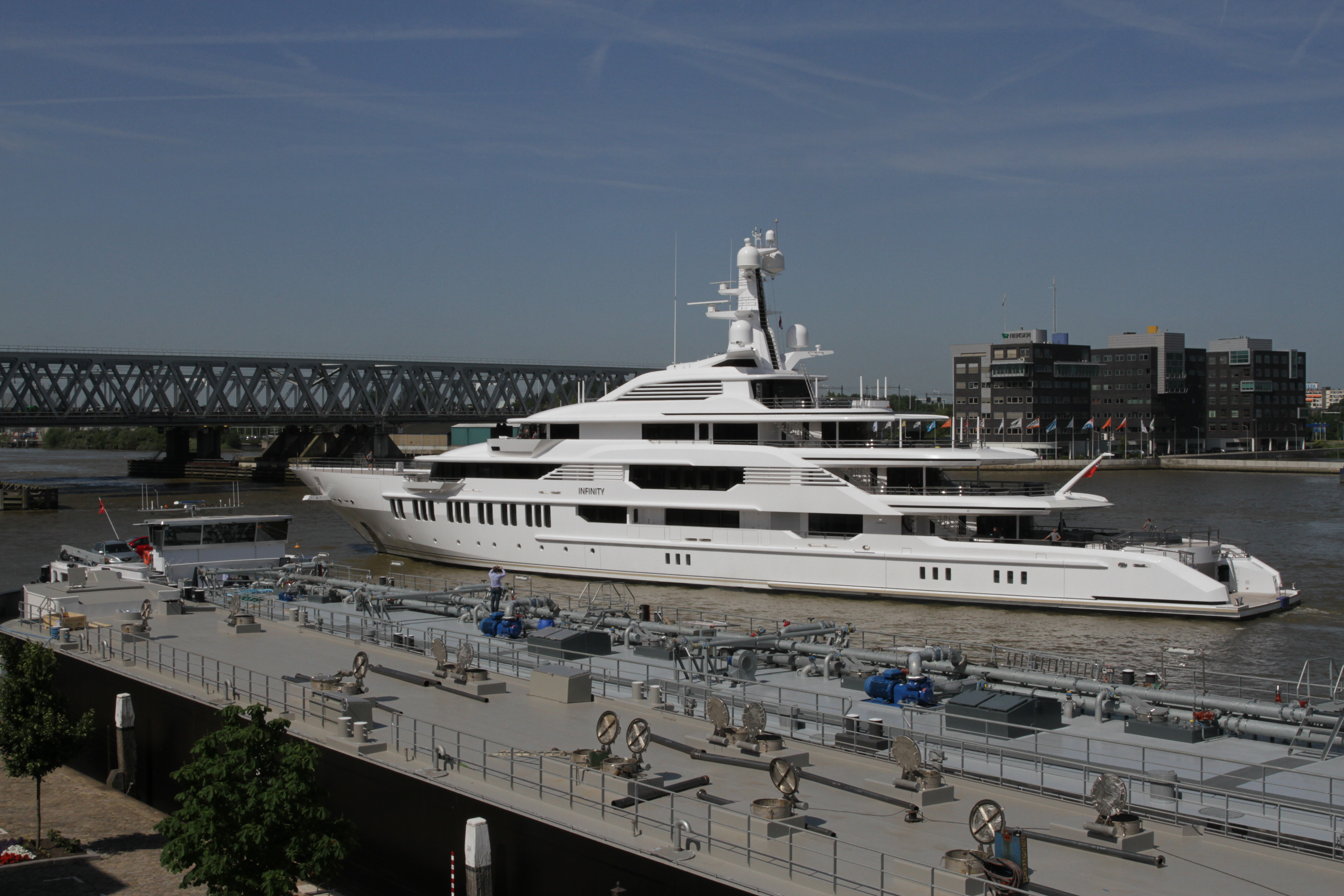 Picture taken in Dordrecht (Netherlands) looking towards Zwijndrecht as Infinity makes her way back towards open sea, most likely from Oceanco shipyard. Picture taken June 9, 2016 at 11:13.